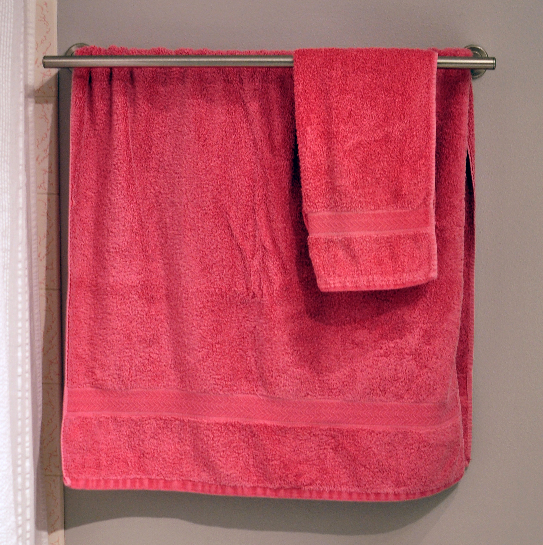 Bathroom towels.